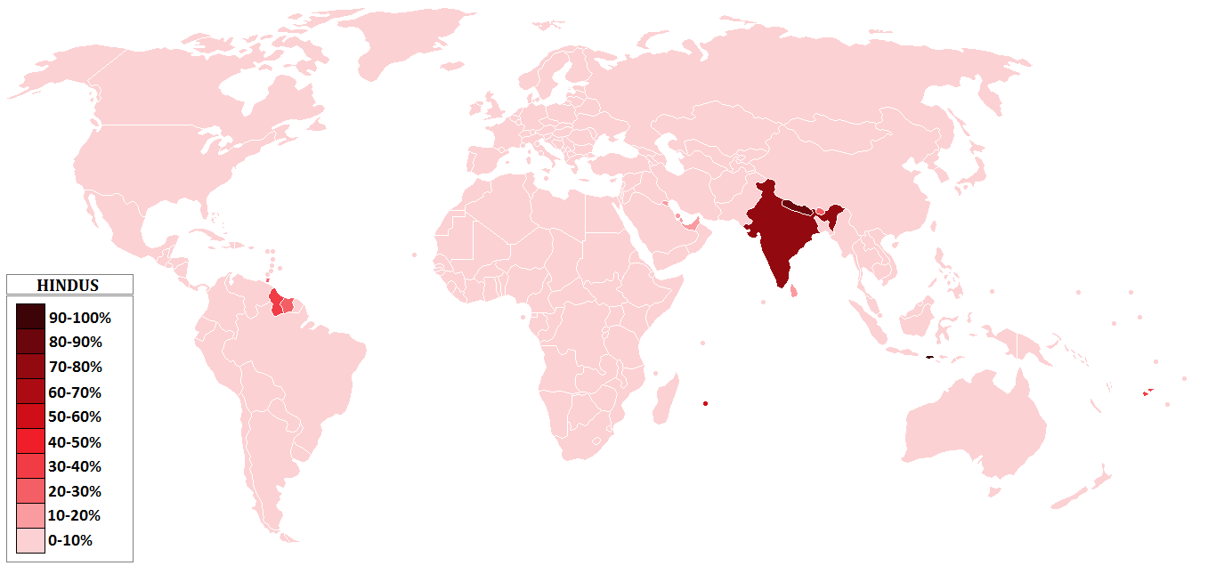 Map of the distribution of Hindus in the world - color difficulties? click here[1].